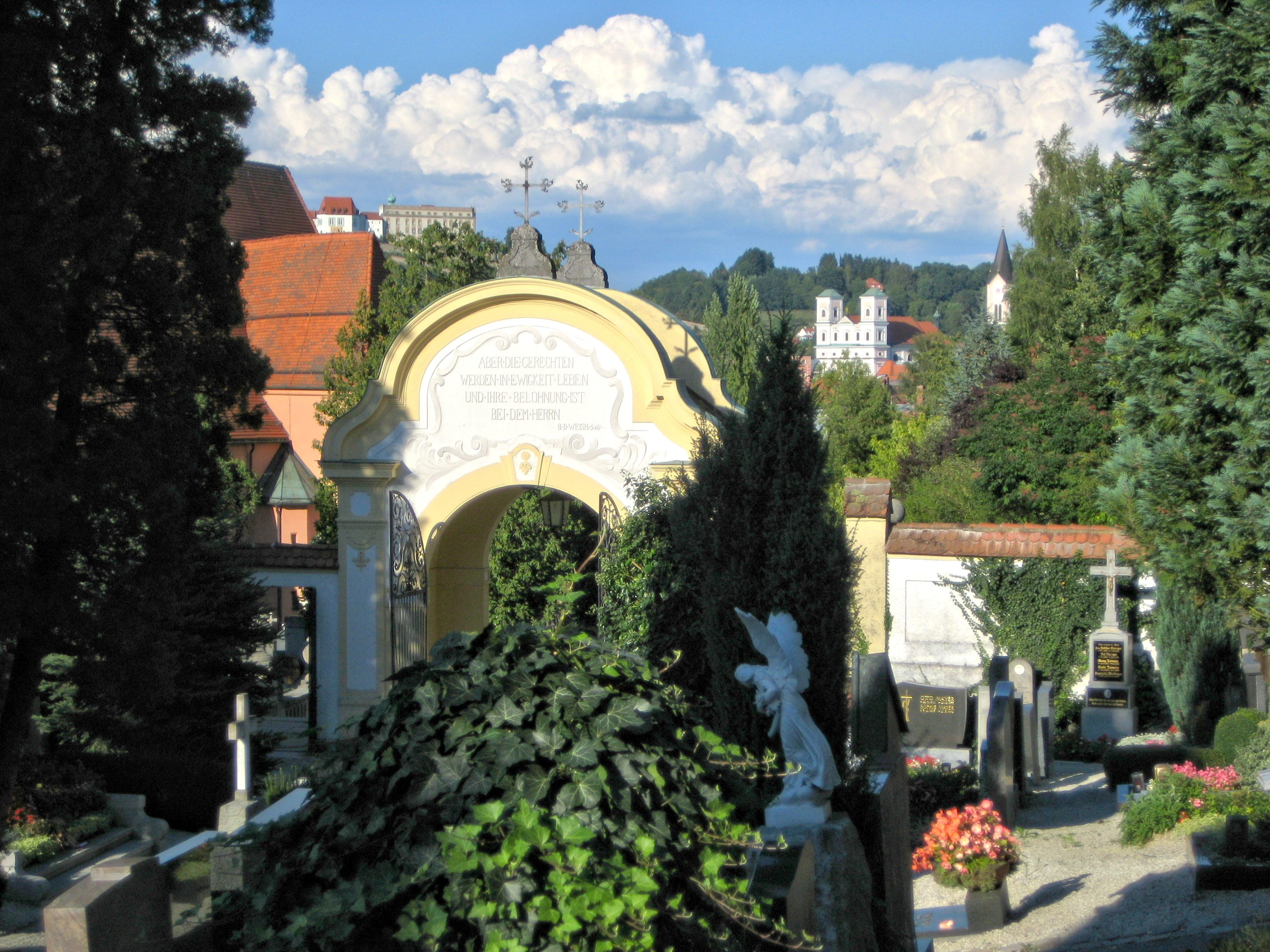 Main portal of Innstadt churchyard in Passauer